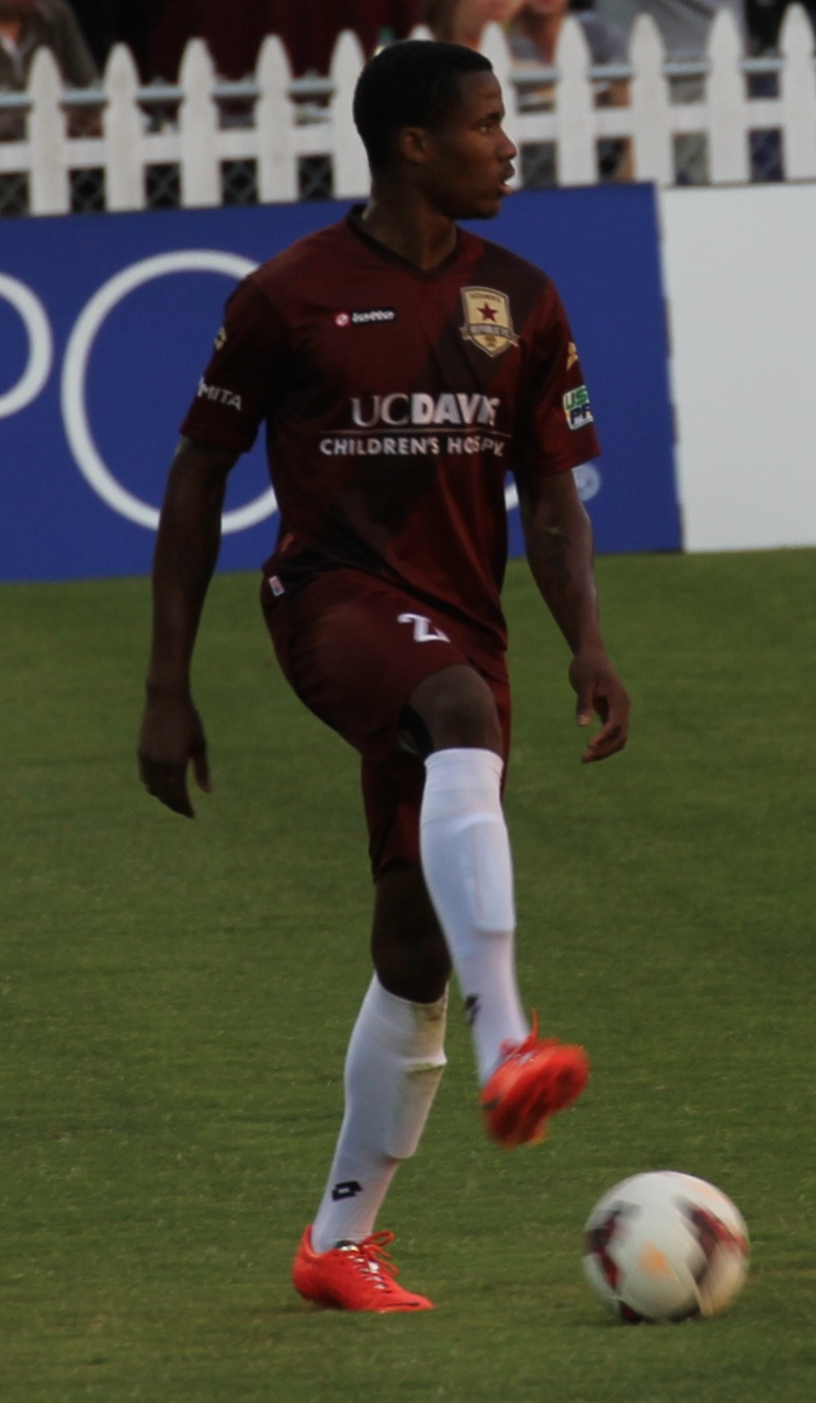 Alvas Powell playing for Sacramento Republic FC in a USL Pro match against Orange County Blues